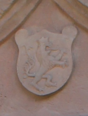 Church of Laas in the community of Kötschach-Mauthen